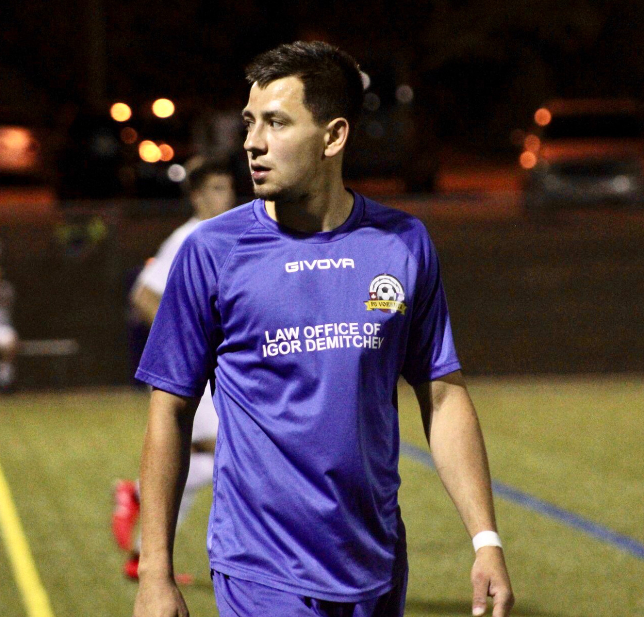 Canadian Soccer League game